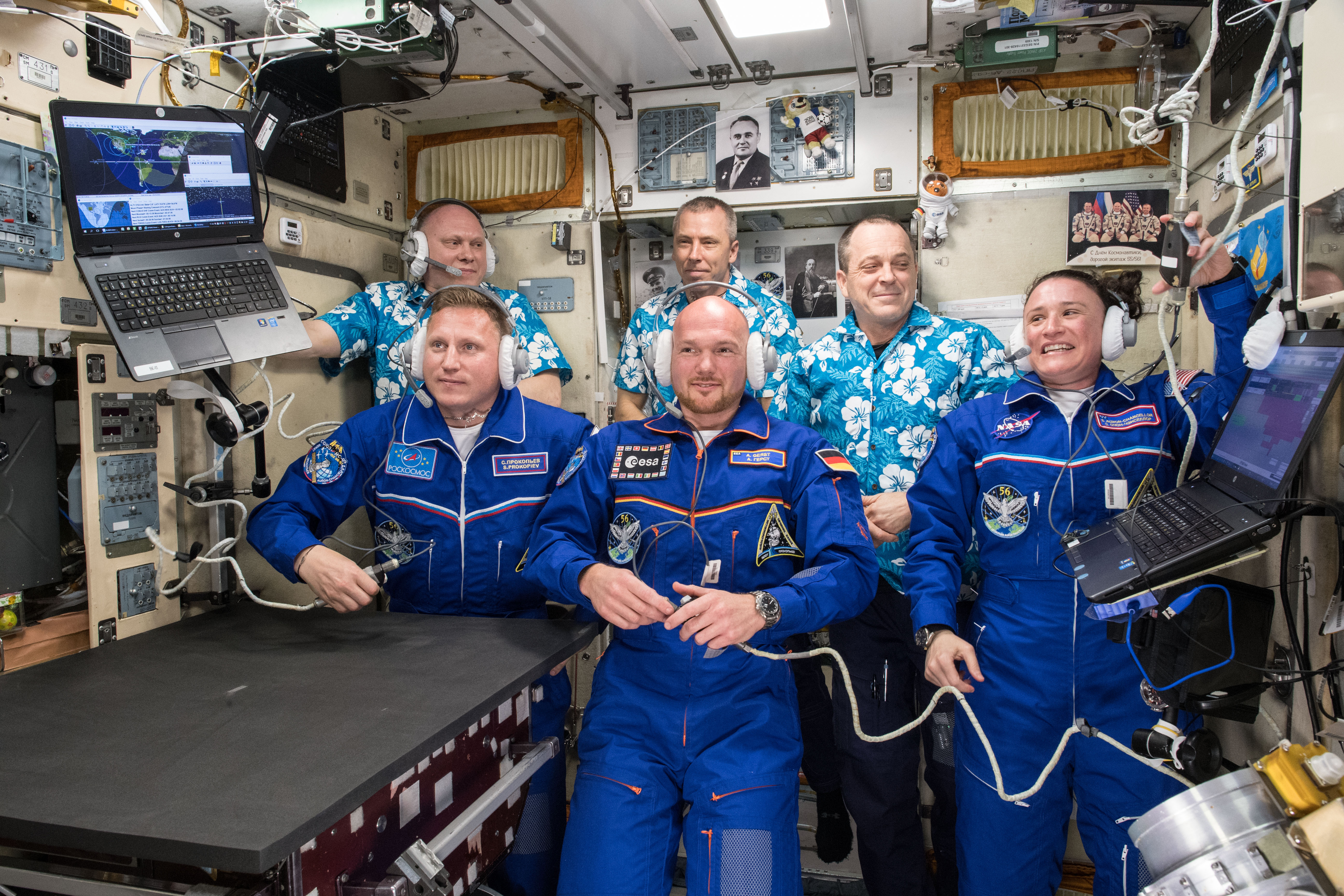 The newly-expanded six-member Expedition 56 crew gathers in the Zvezda service module shortly after three new crew members arrived June 8, 2018. In the front row (from left) are the newest Expedition 56 Flight Engineers Sergey Prokopyev, Alexander Gerst and Serena Auñón-Chancellor. In the back (from left) are Flight Engineer Oleg Artemyev, Commander Drew Feustel and Flight Engineer Ricky Arnold.